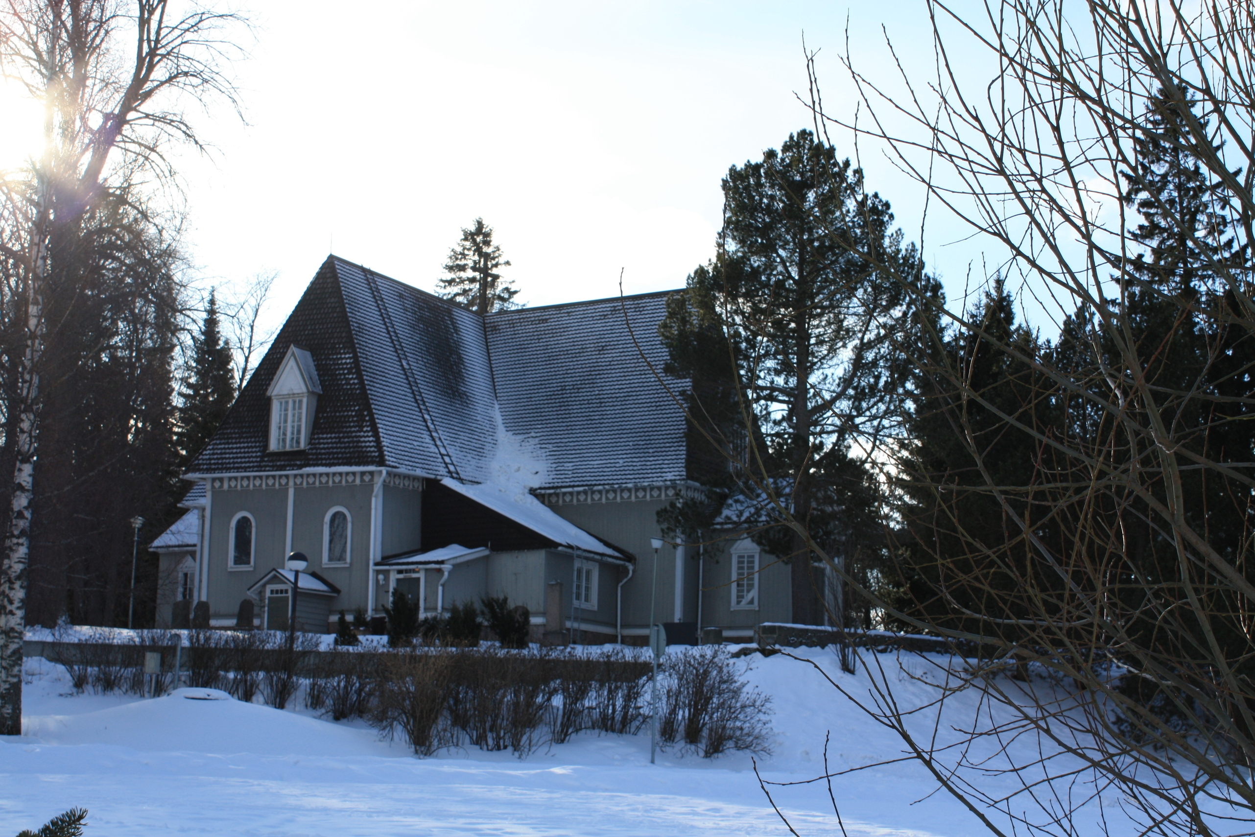 The wooden church of Tuusula, Finland in winter. The church was build in 1734.